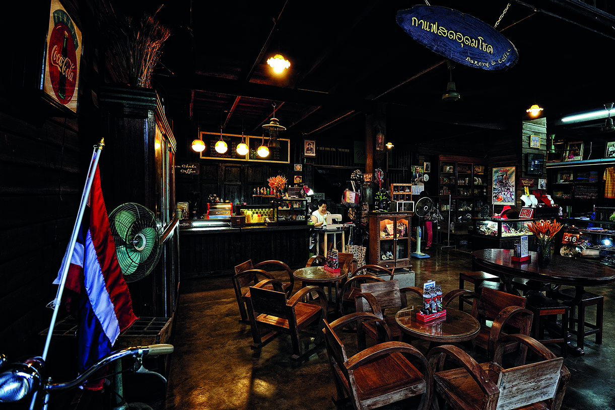 The market is located in Samchuk district. It is a old market with almost 100 years old. Started from a small community and became the market of the district in 1917. In the past decade, the market was publicized with a slogan “Lively Market, Living Museum”. The community museum is at “Ban Khun Chumnong Jeenaruk” or Mr.Hui Sae Heng, a Chinese man born in Suphanburi in the reign of King Rama VII. At the entrance of the market, there is a big red postbox that is in a Victorian crowned-shaped. There is shrine of Samchuk city god or “Jea Pung Toa Kong” inside the market, which was built in 1924. Presently, the surrounding area still features traditional ways of living and old wooden buildings. Food and desserts, as well as other products, offered here are entirely from genuine attention, not from imitation, to foster such a long and distinguished culture. The famous food are fish sausage, nougat, soybean pudding and fish ball noodle soup. In 2009, UNESCO declared the market “the Award of Merit” a world heritage site in the category: Asia-Pacific Heritage Awards for Culture Heritage Conservation.